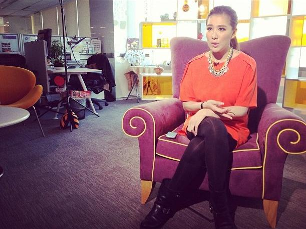 Karen Hu